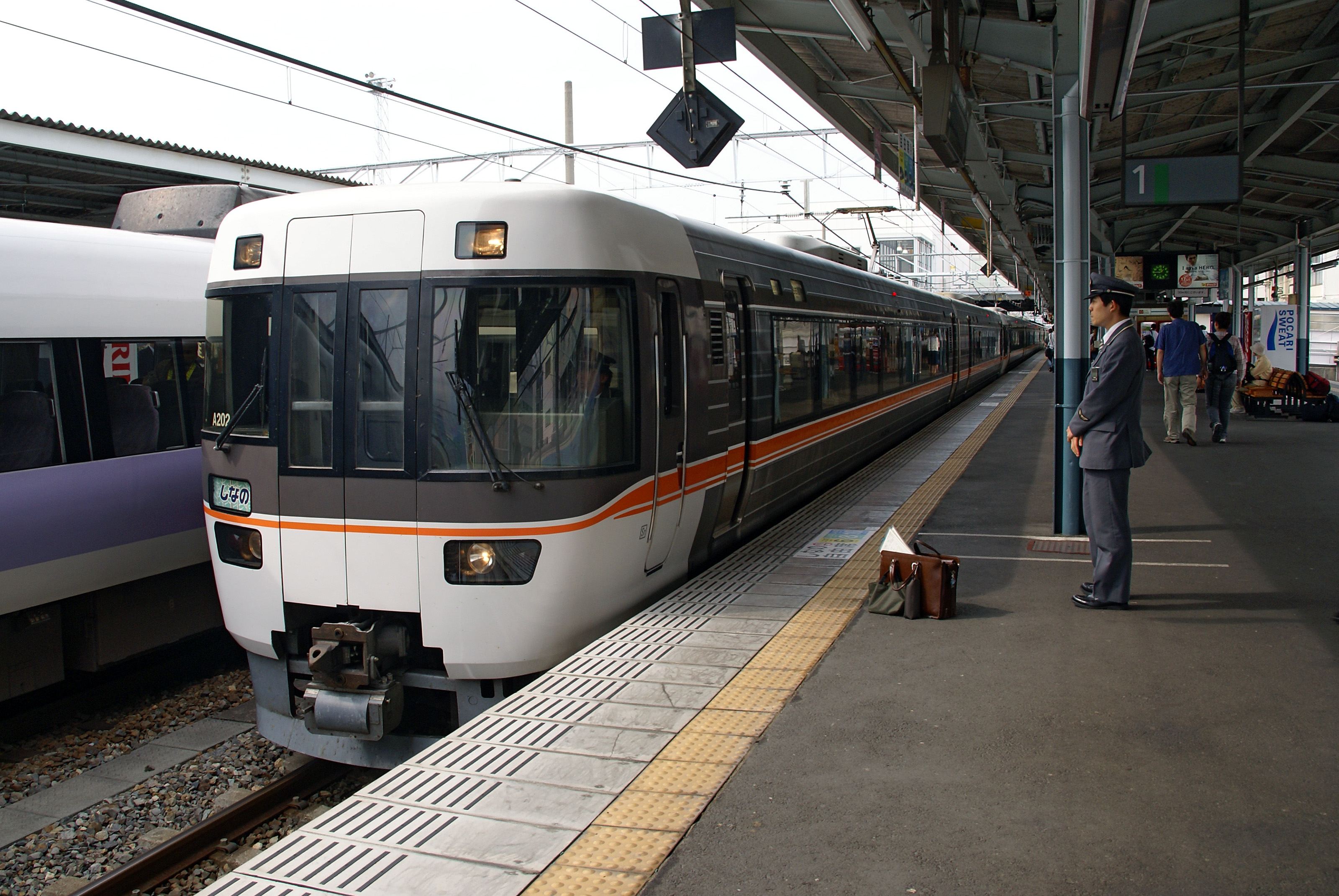 Matsumoto Station in Matsumoto, Nagano prefecture, Japan